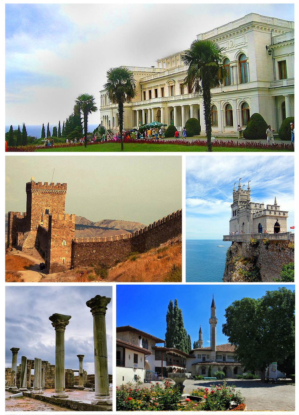 Image collage of demonstration of Crimean (Ukraine) culture.